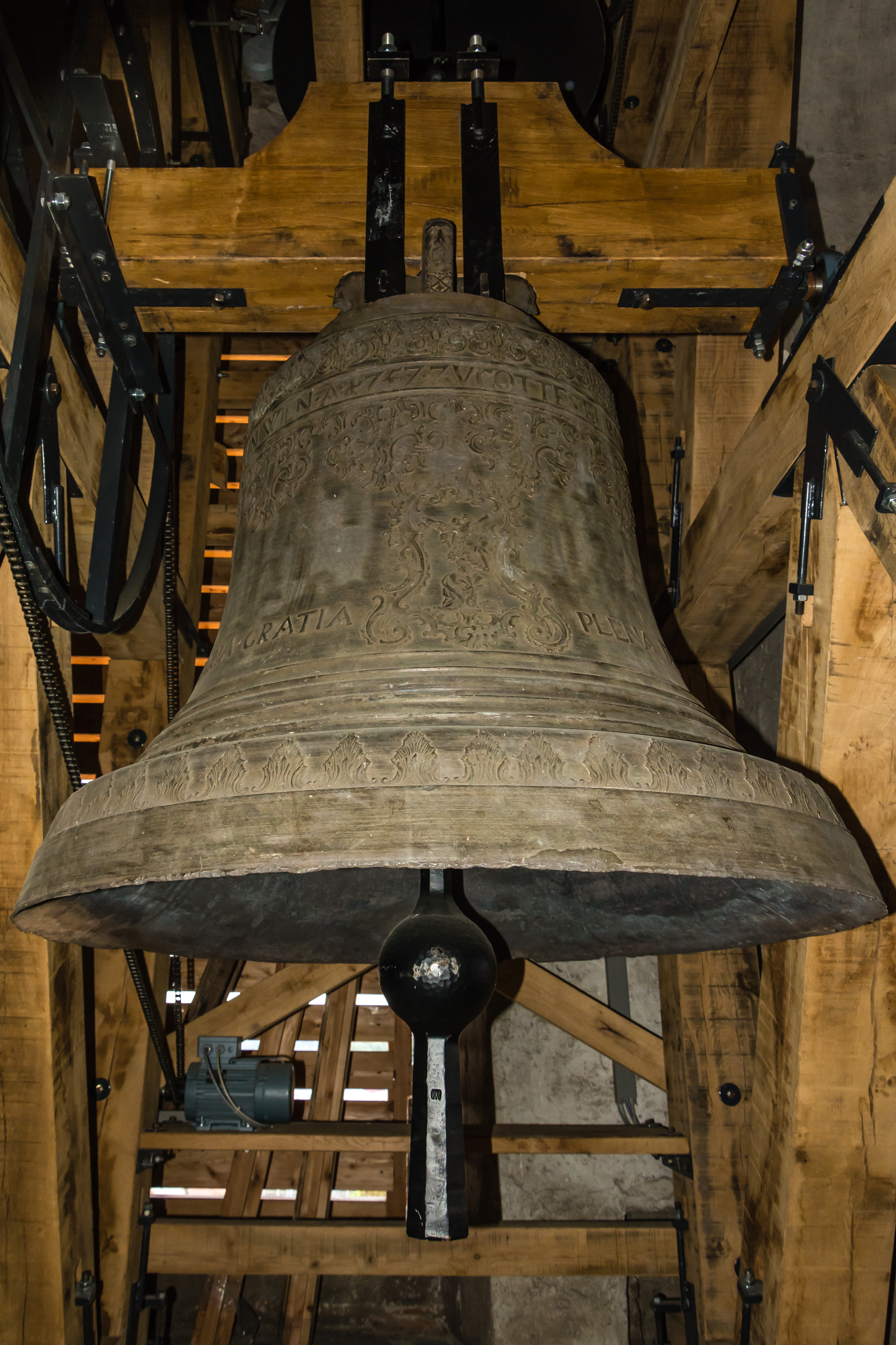 3rd bell named Zwölferin of St. Stephen's parish church in Tulln an der Donau (Lower Austria), cast 1752 by Franz Wucherer in Vienna. Strike tone dis1, weight 1.100 kg, diameter 124 cm.